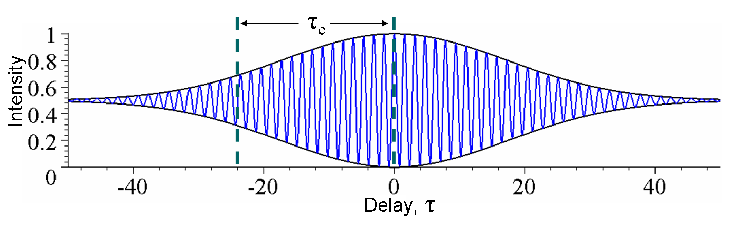 The intensity interference pattern observed as the delay between two copies of a wave with a finite coherence time is changed. I created this.